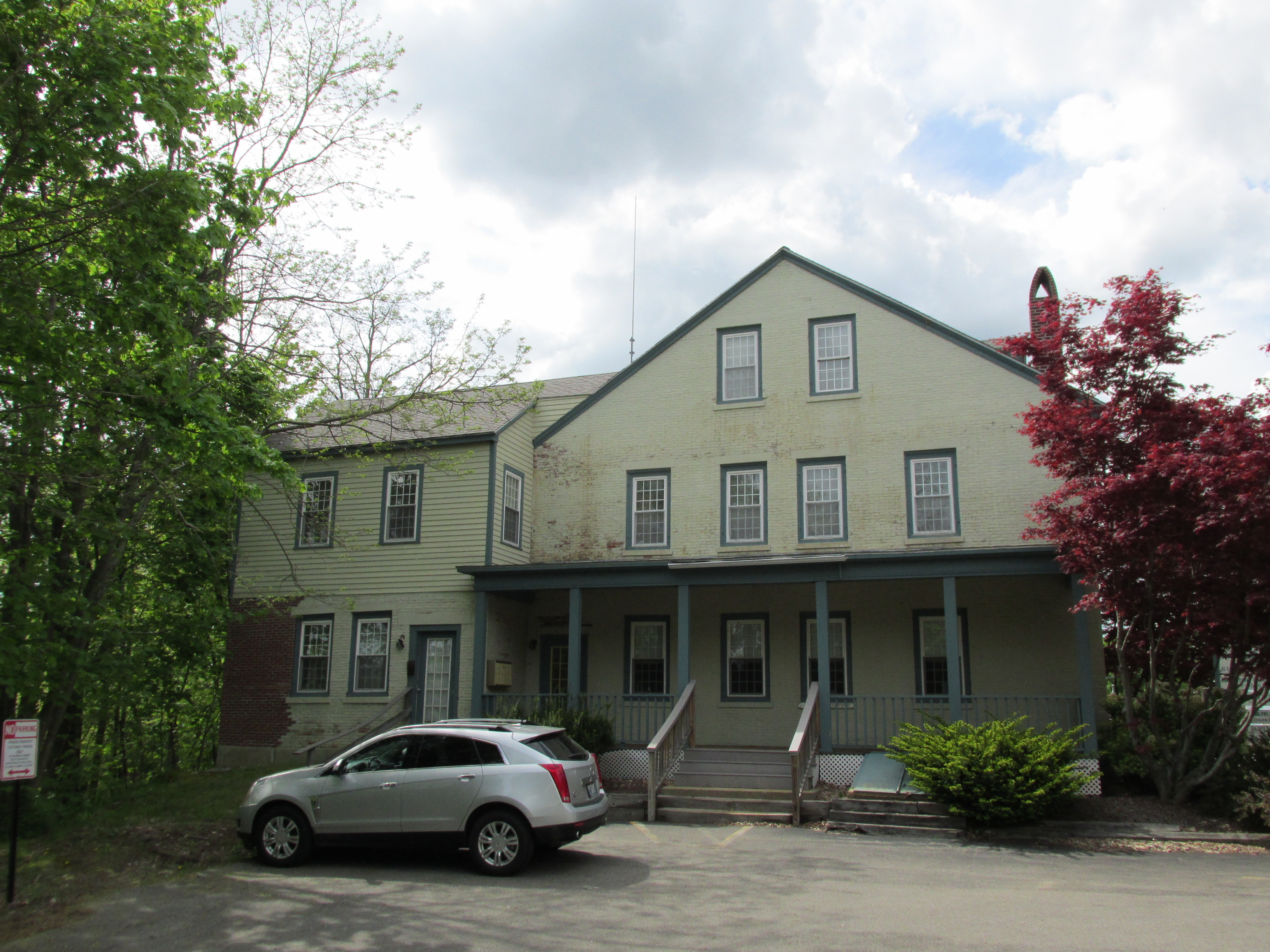 Farnum Professional Building, Blackstone Massachusetts - 2013